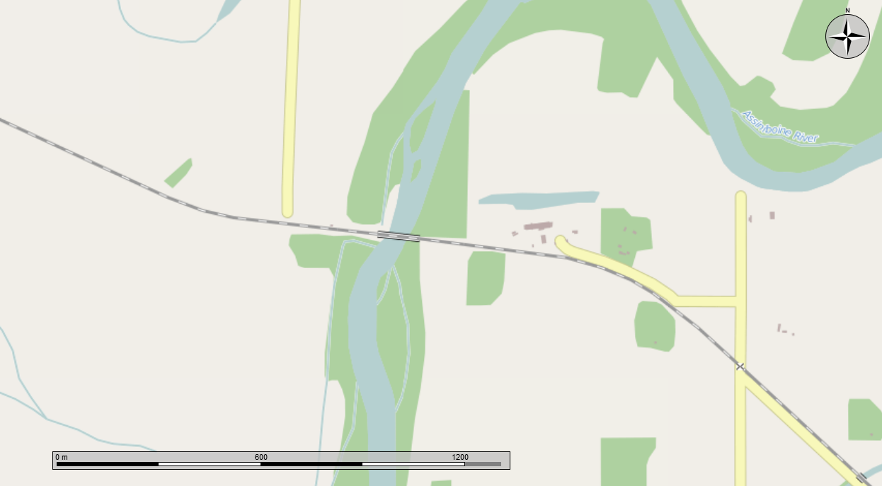 Open Street Map from the Marble program. Shows the Assinoboine River Bridge, a rail bridge 8km east of Portage La Prairie, MB.